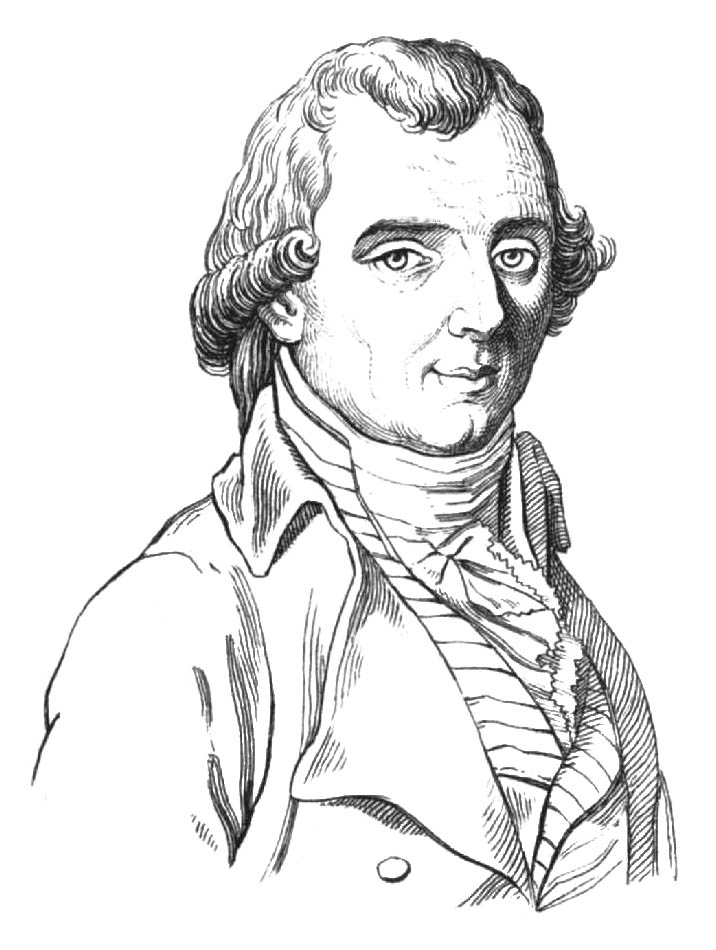 Heinrich Wilhelm Matthäus Olbers (October 11, 1758 – March 2, 1840) was a German astronomer, physician and physicist.